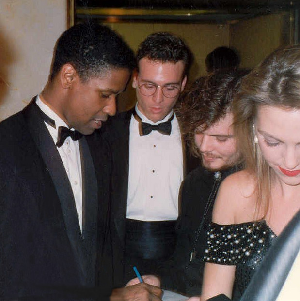 Denzel Washington in the lobby of the Dorothy Chandler Pavilion at the 62nd Annual Academy Awards, 3/26/90